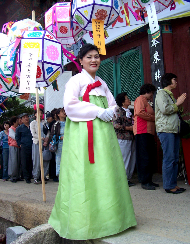 A woman in Hanbok at Beomeosain in Busan City.